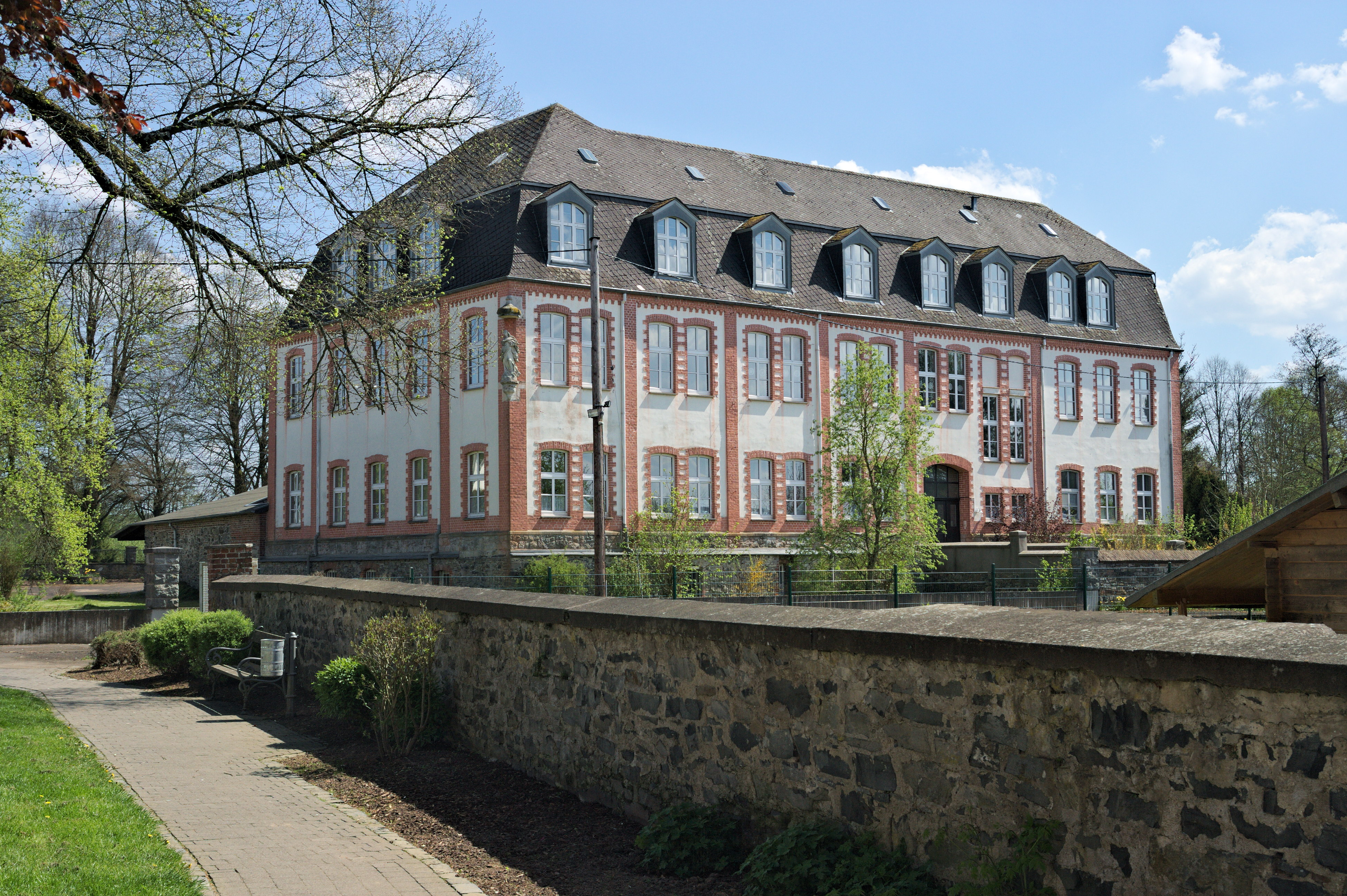 Marienheim at the Waagweiher in Herschbach (Uww), Westerwald, Germany. Seen from north-west